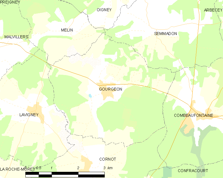 Map of French municipality